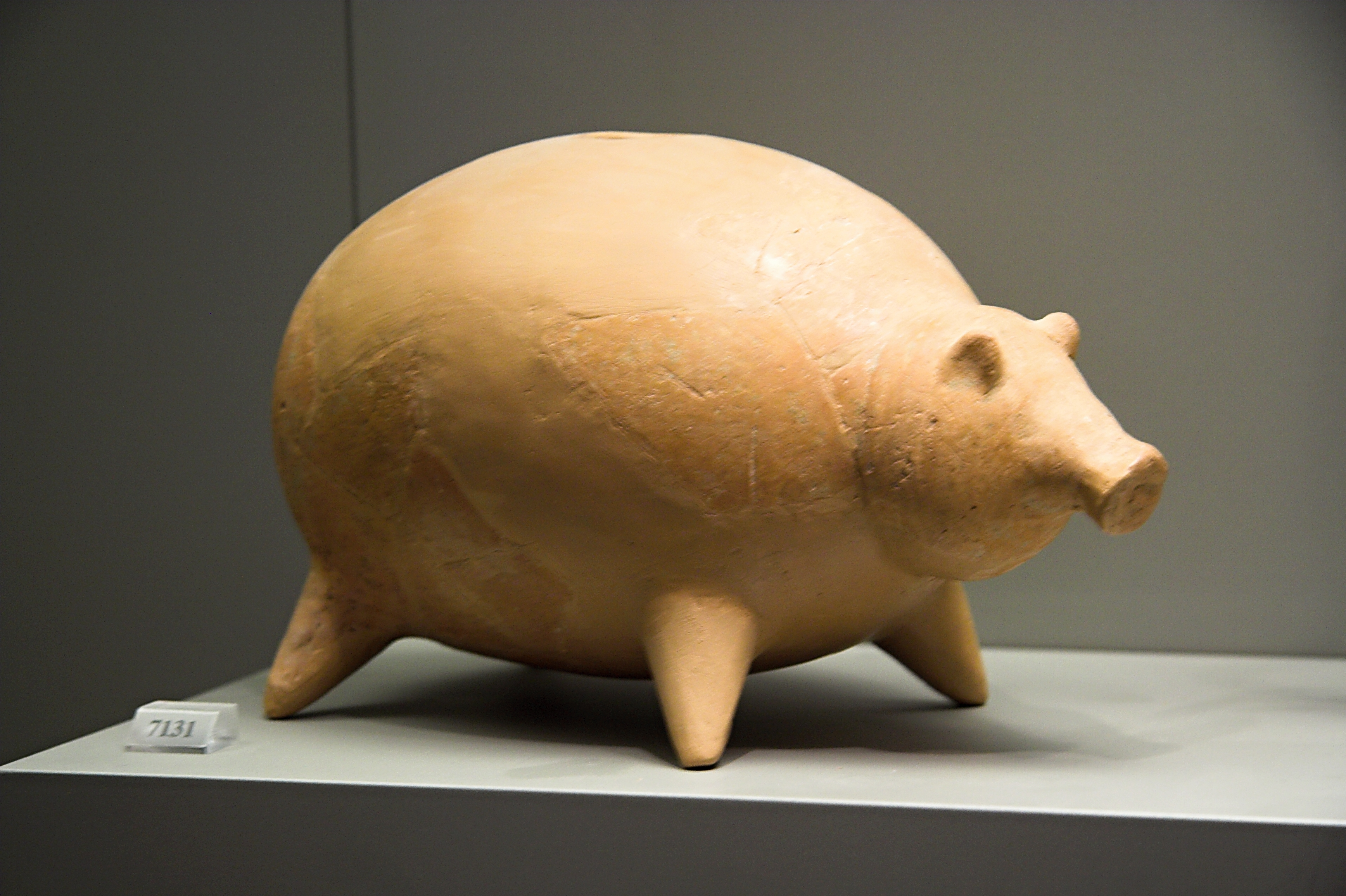 Terracotta piggy, terracotta from Poliochni on the island Lemnos (?) 2500-2300 BC. National Archaeological Museum of Athens.